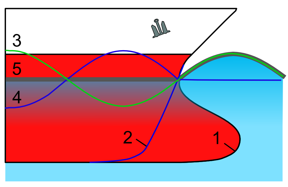 1. Profile of bow with bulb 2. Profile of bow without bulb 3. Wave created by bulb 4. Wave created by conventional bow 5. Waterline This illustrates that the wave created by the bulb cancels that created by the conventional bow, thereby creating less drag on the vessel.